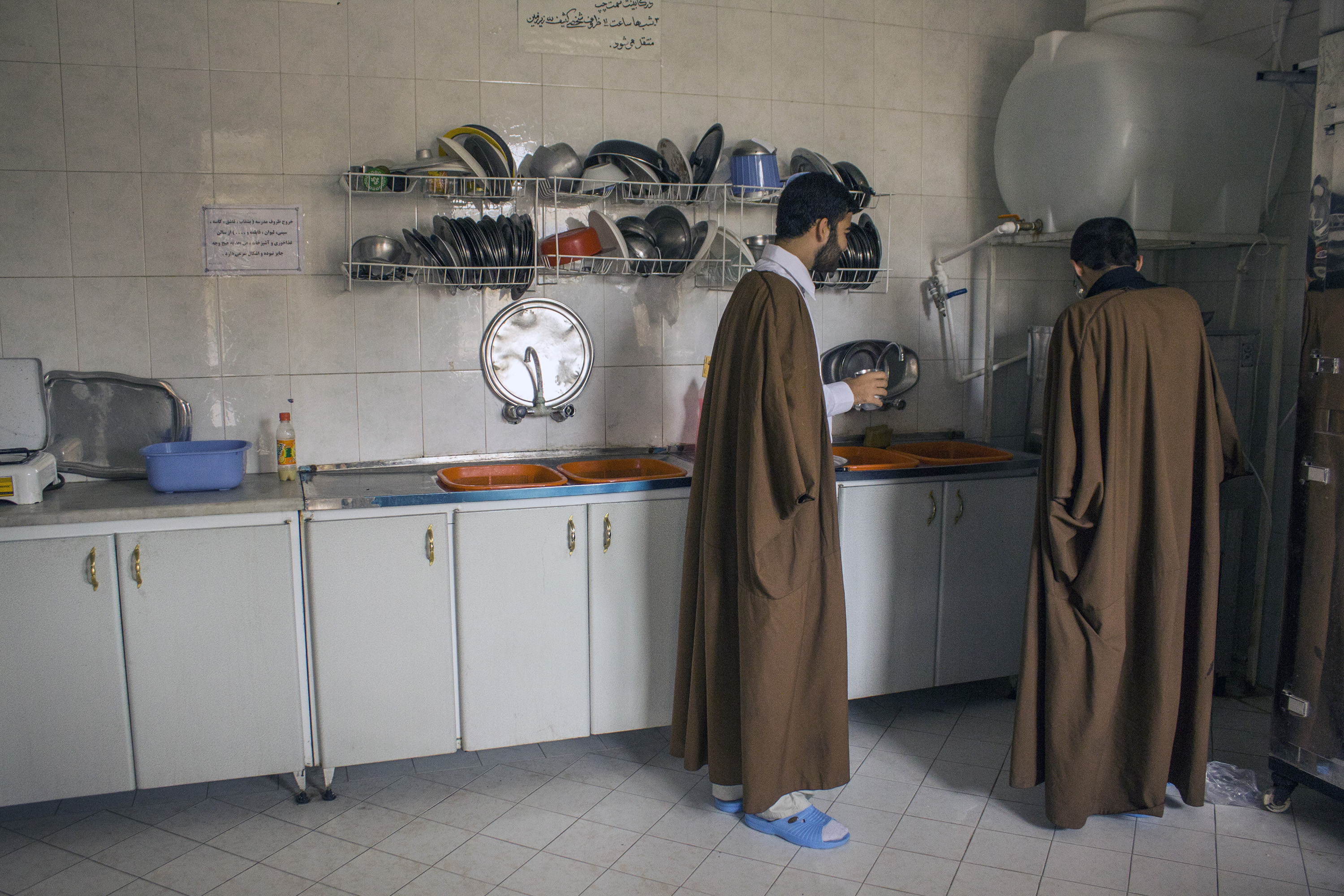 Clergy are some of the main and important formal leaders within certain religions.